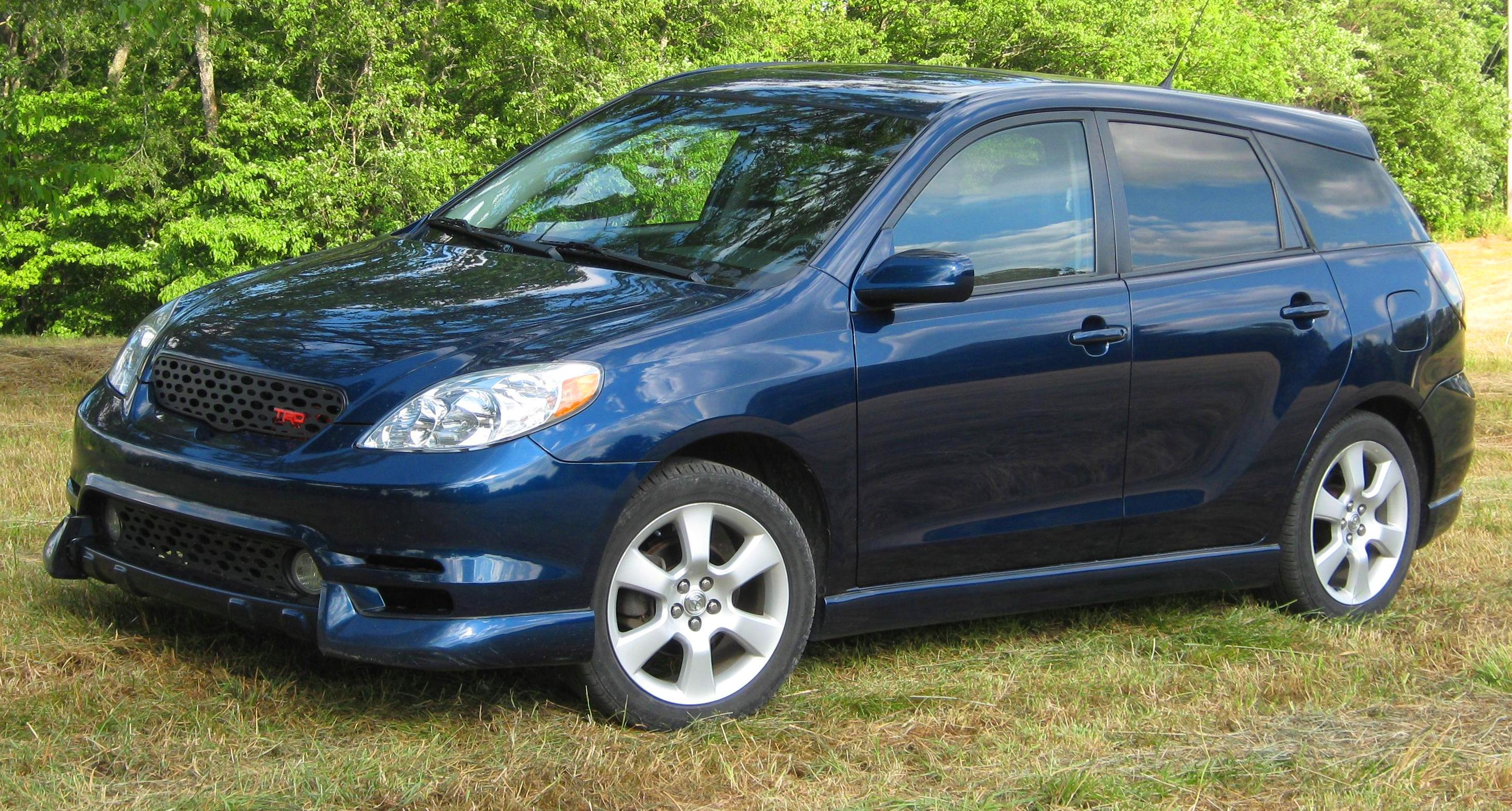 2004 Toyota Matrix XRS in Indigo Ink Pearl, shown with optional TRD grille